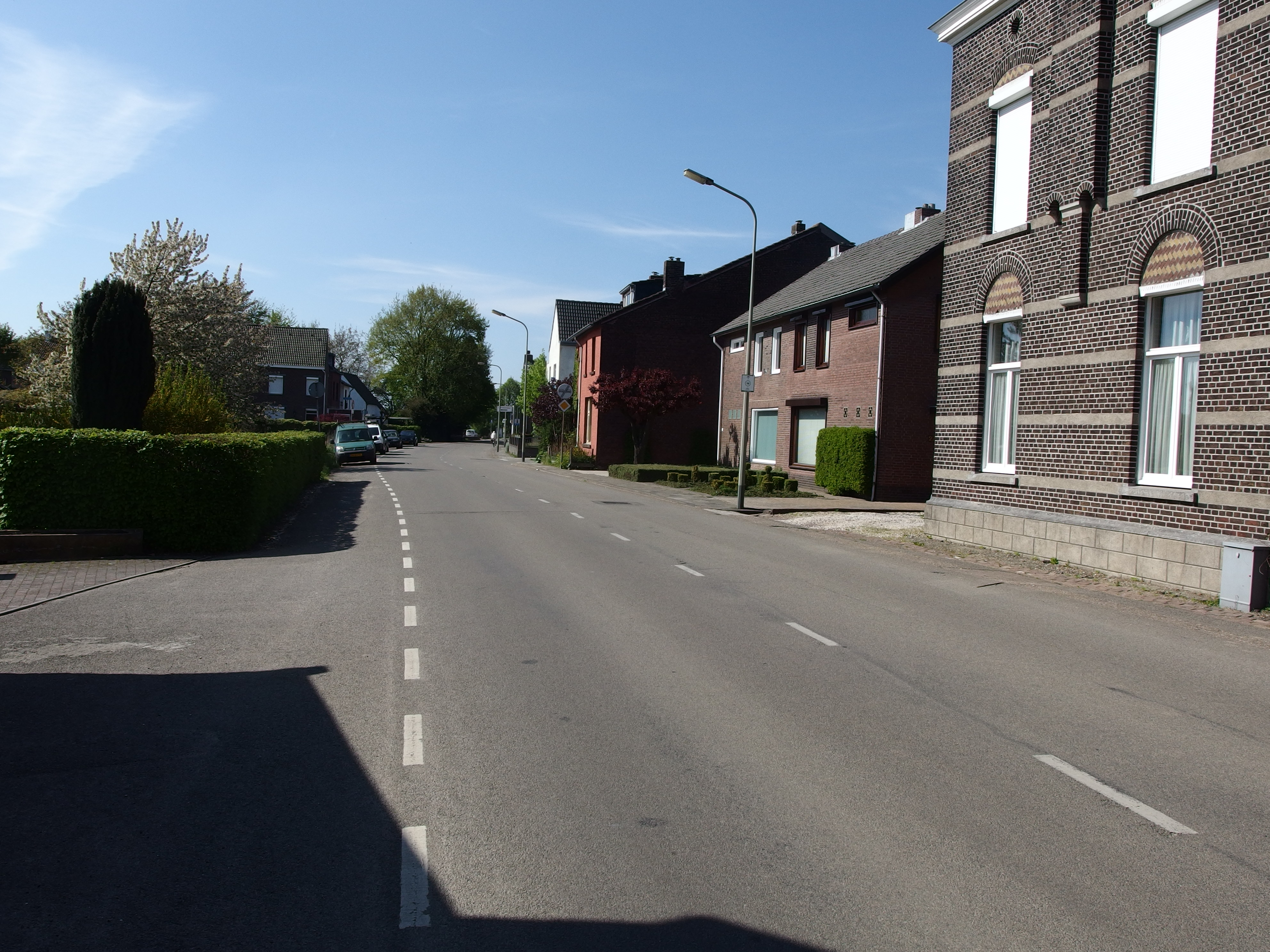 2013-05-05 in Maastricht. Borgharen; Street.